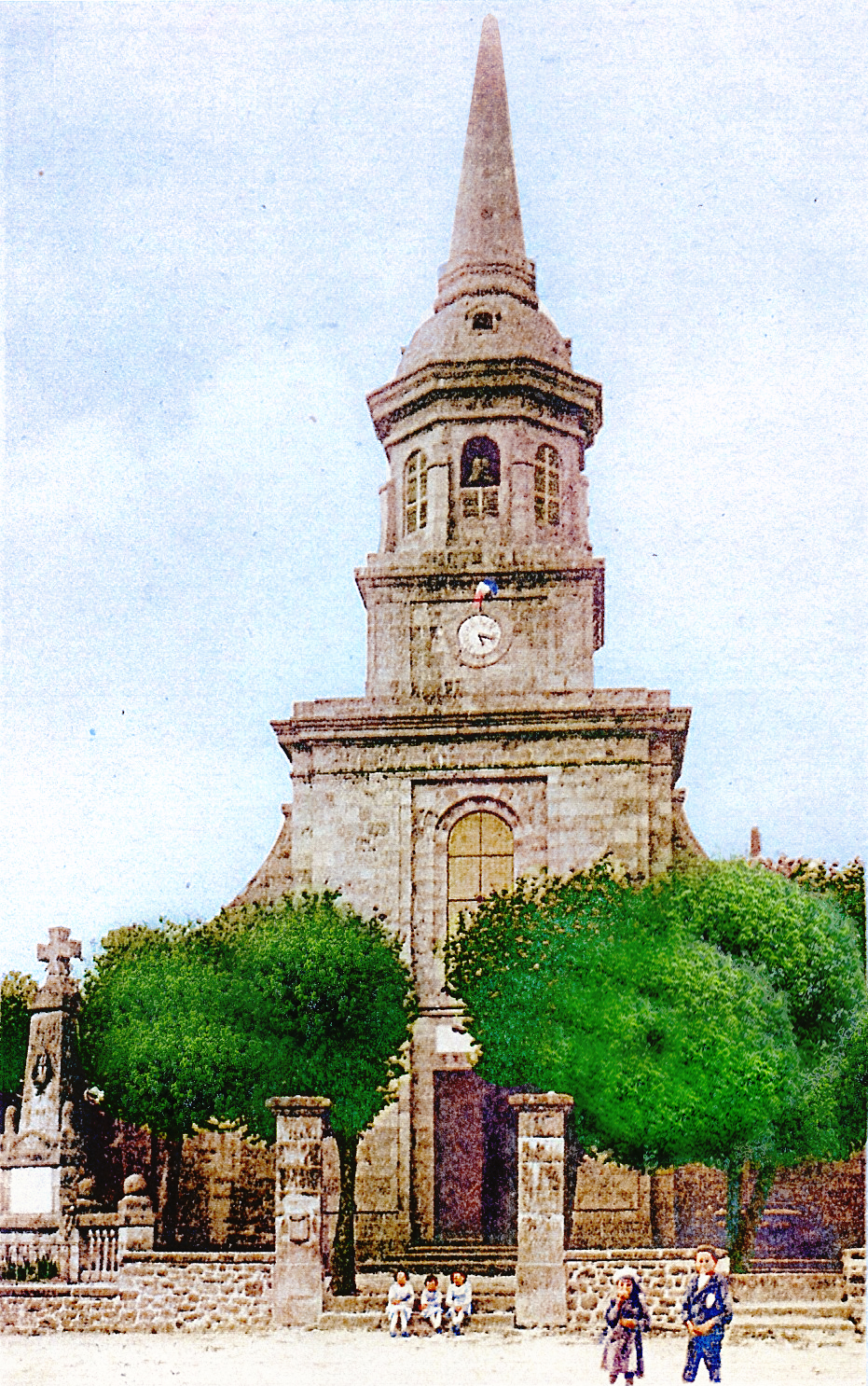 Former church of Caudan before 1945